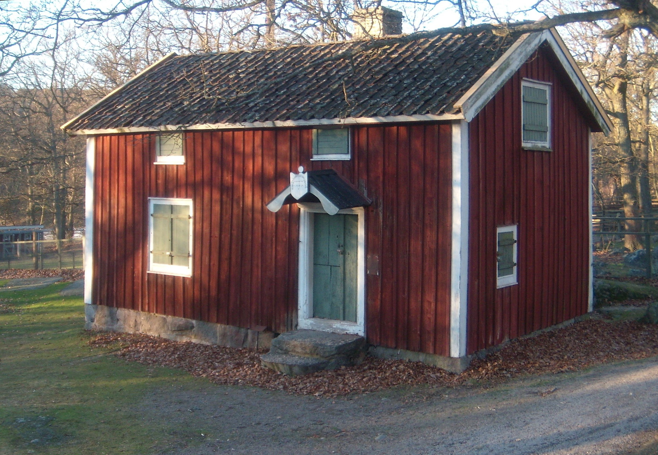 Swedish old house countryside in Småland.